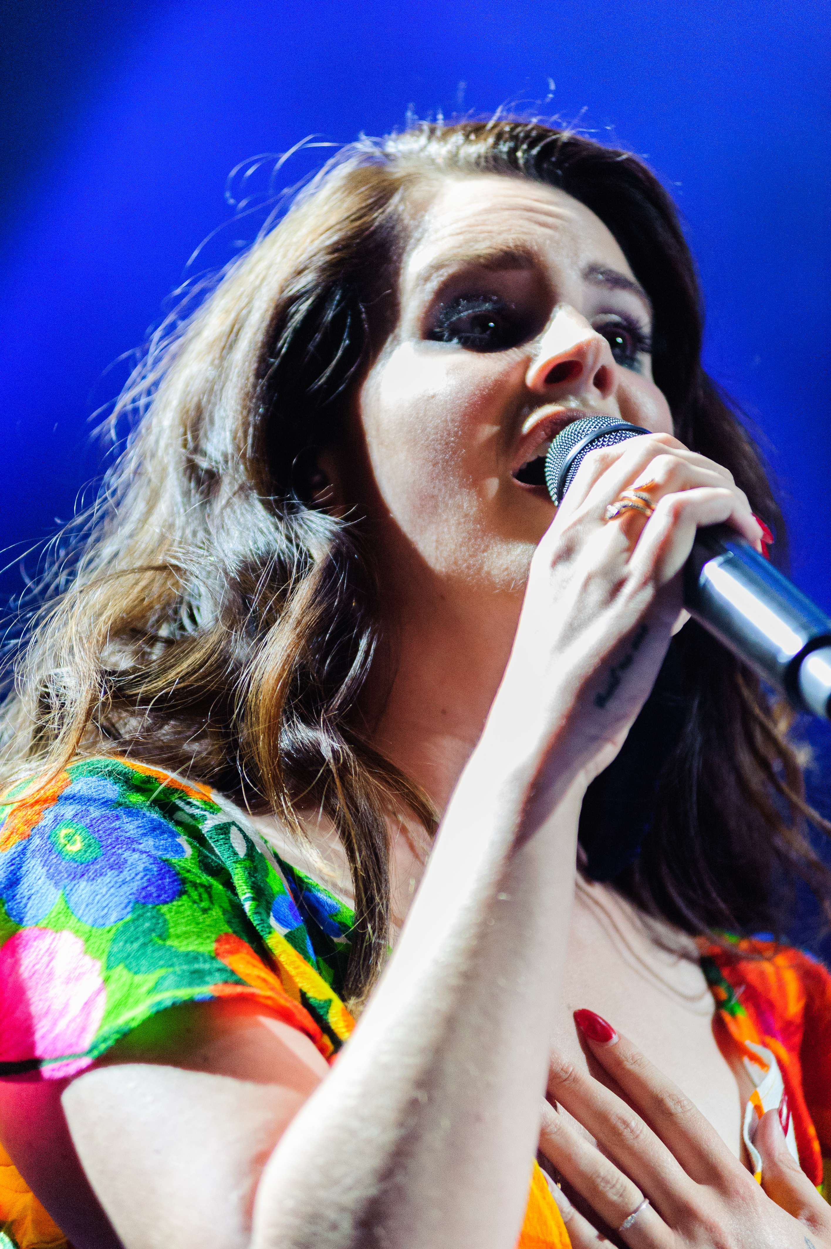 Lana Del Rey at Coachella in 2014